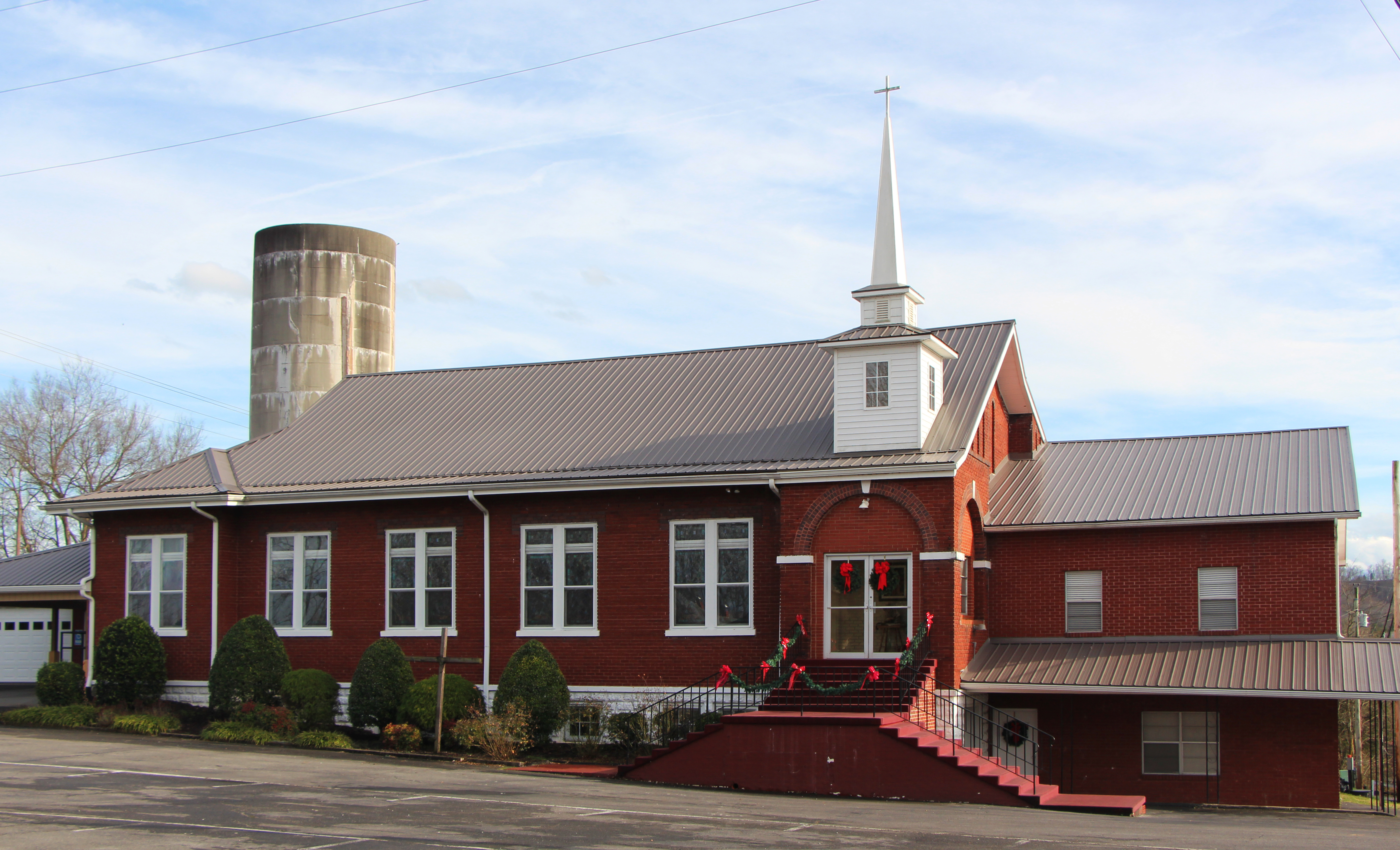 First Baptist Church, 121 South Main St, Bulls Gap, TN